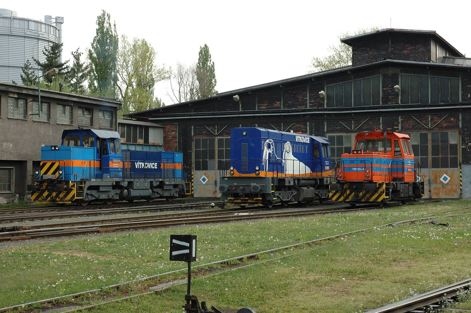 Locomotive depot of Vítkovice iron works and locomotives of operator Vítkovice Doprava